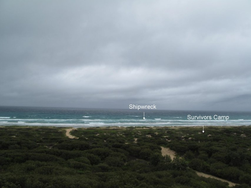 View of Hive shipwreck and survivor's camp from Bherwerre Beach